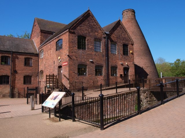 Coalport China Museum - Coalport - Shropshire The former Coalport China Works is now the Coalport China Museum, one of the hanful of museums in the Ironbridge Gorge area.